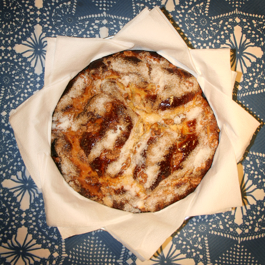 Kozunak - Bulgarian Orthodox Easter traditional pastry. (one piece)